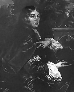 Henry Hyde, 2nd Earl of Clarendon (1638-1709)